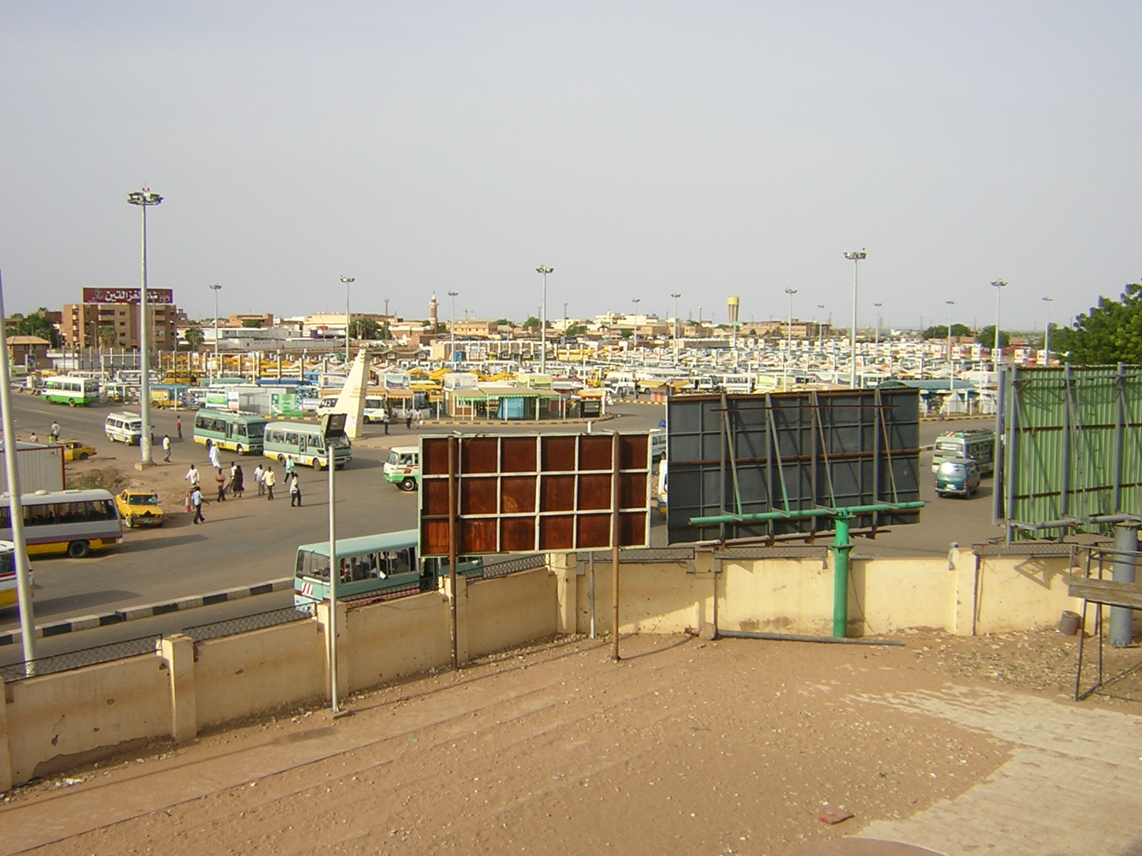 Local bus station in Khartoum, Sudan.